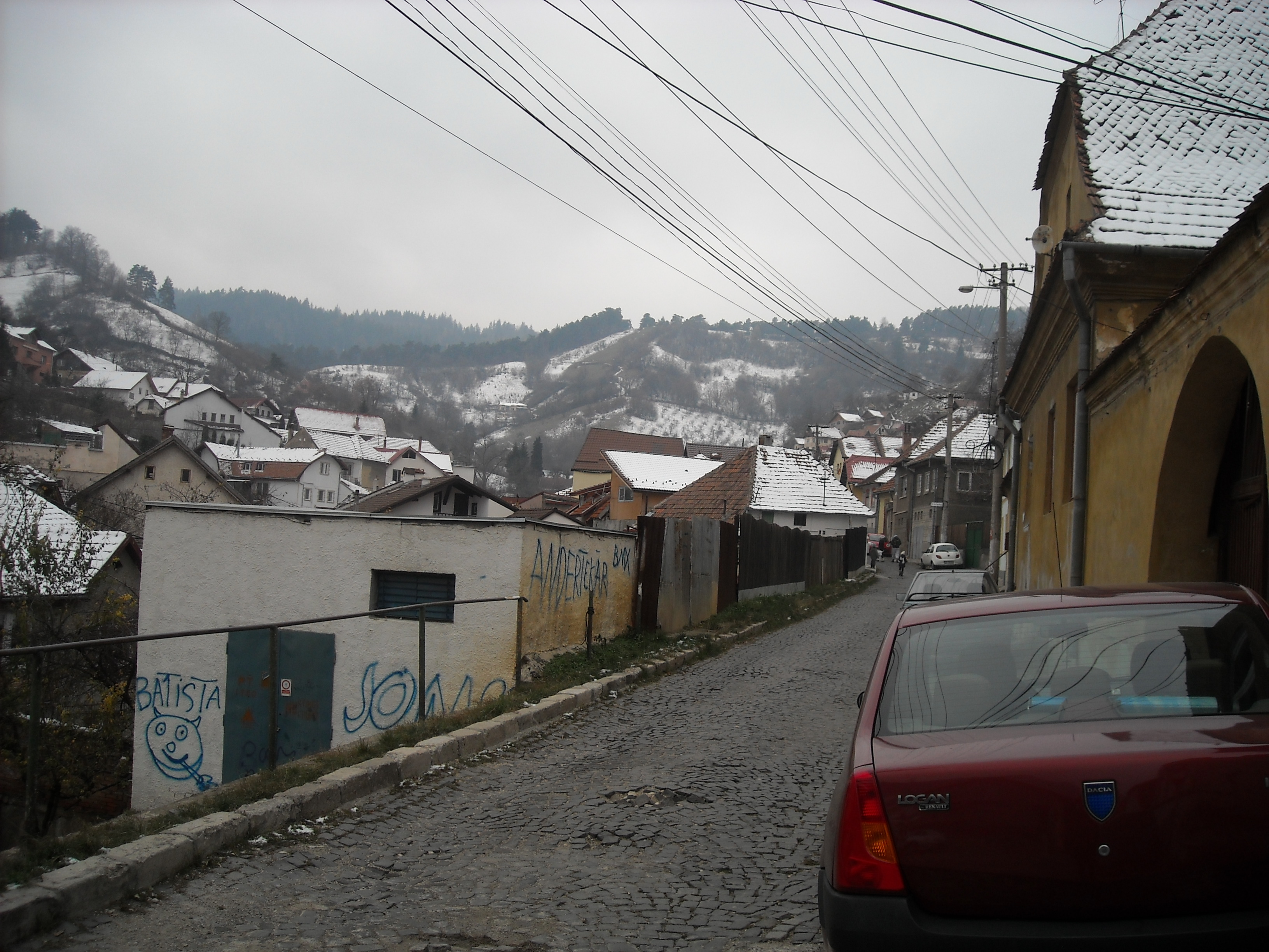 Cacova neighbourhood of Șcheii Brașovului